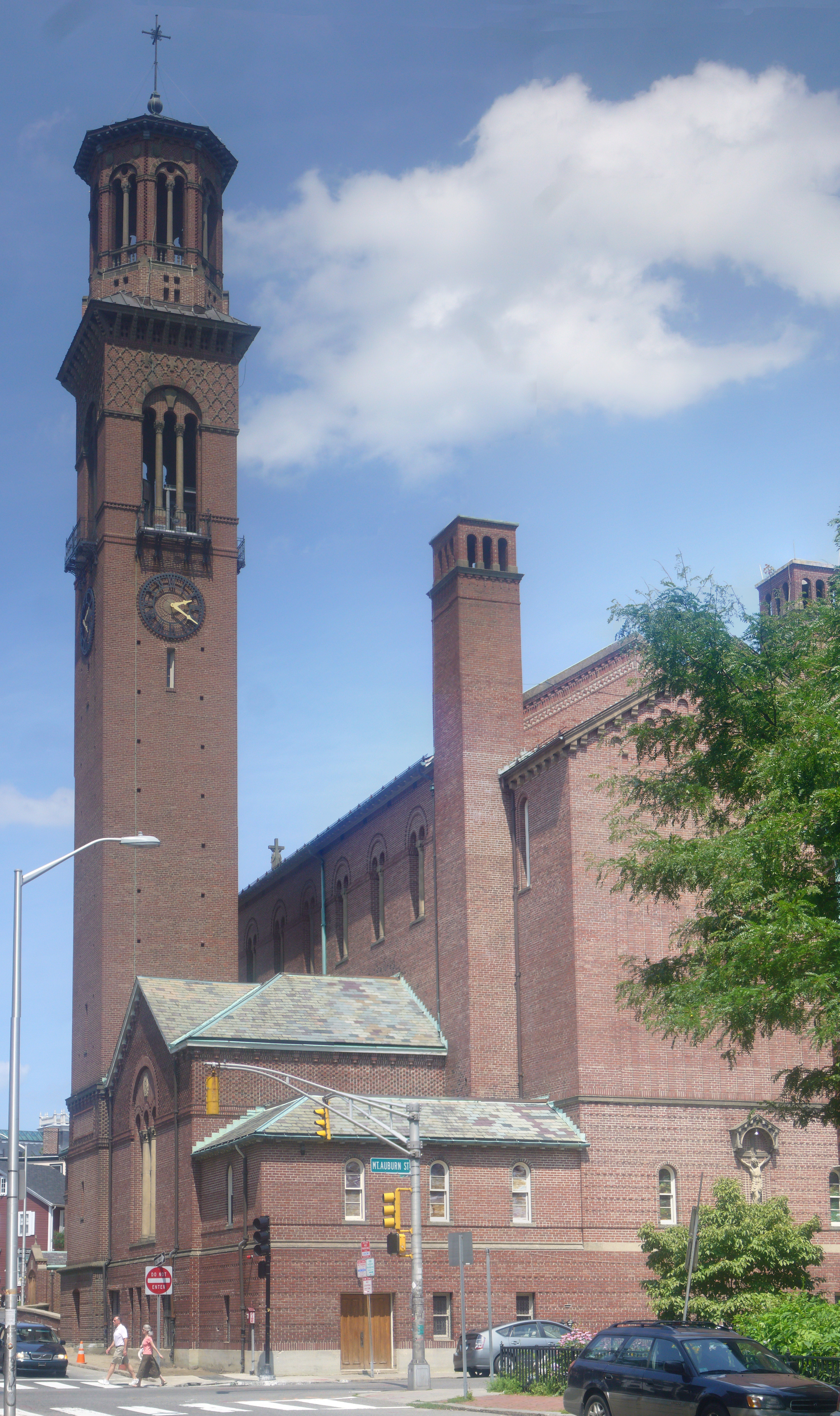 The Church of St. Paul (Harvard Square) in Cambridge, MA. A stitch of 12 photos. (Note the perspective is a bit off).